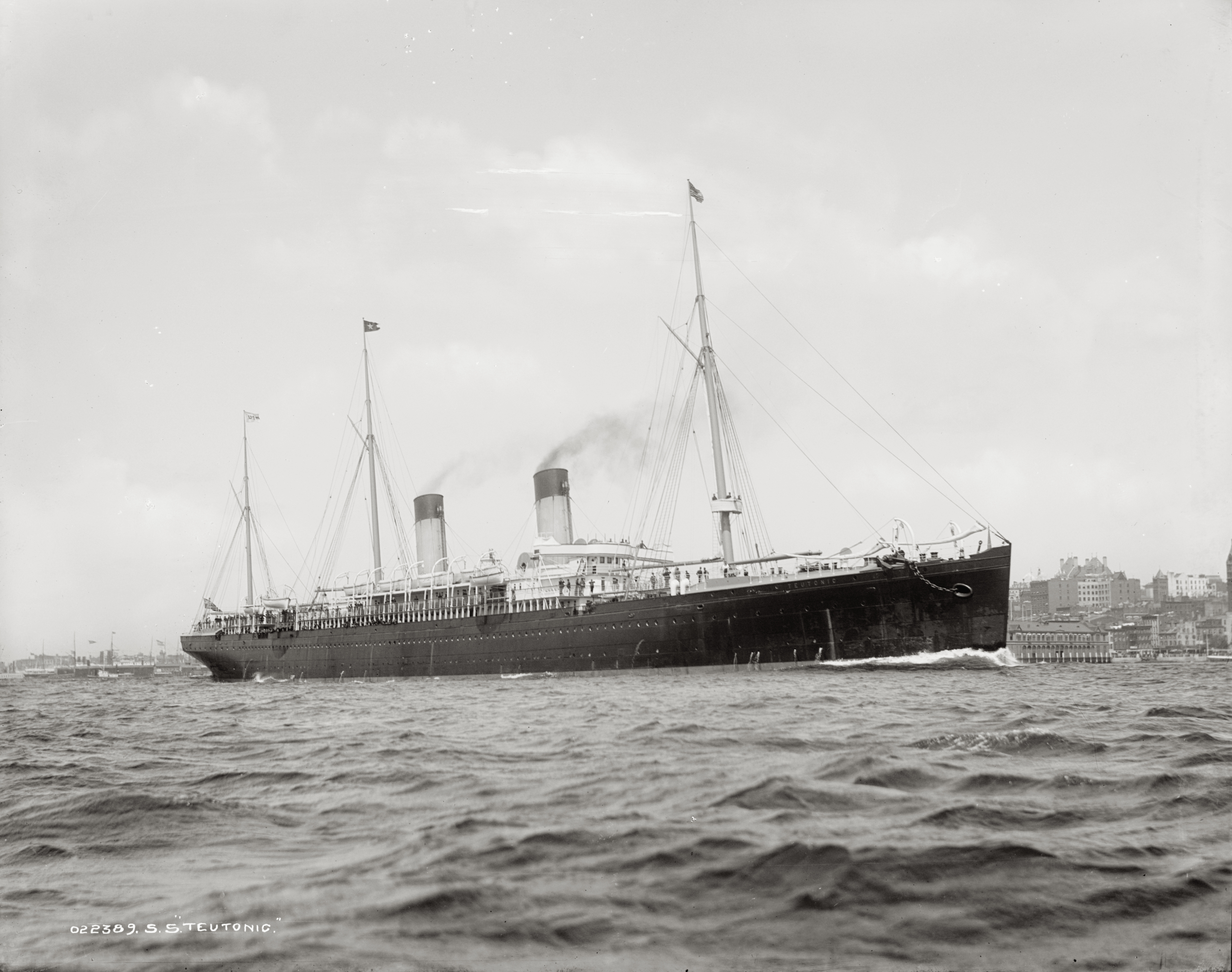 White Star liner S.S. Teutonic